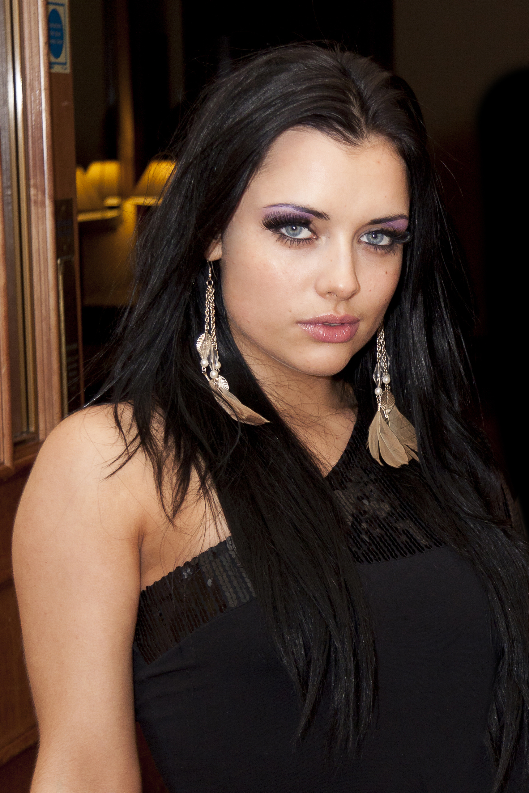 Shona McGarty by Stuart Davison - LNet Photography.